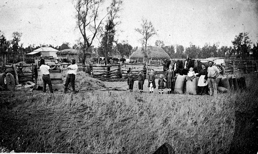 Kellalac, Victoria farmyard circa 1885